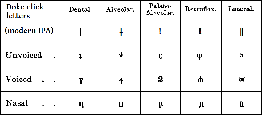 Chart of ʗhũ clicks, illustrating Doke click orthography